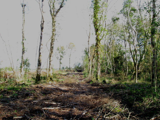 Lough Owel Woodland Felled area of woodland close to the lagoon of Lough Owel known as the 'Pot Lake'.